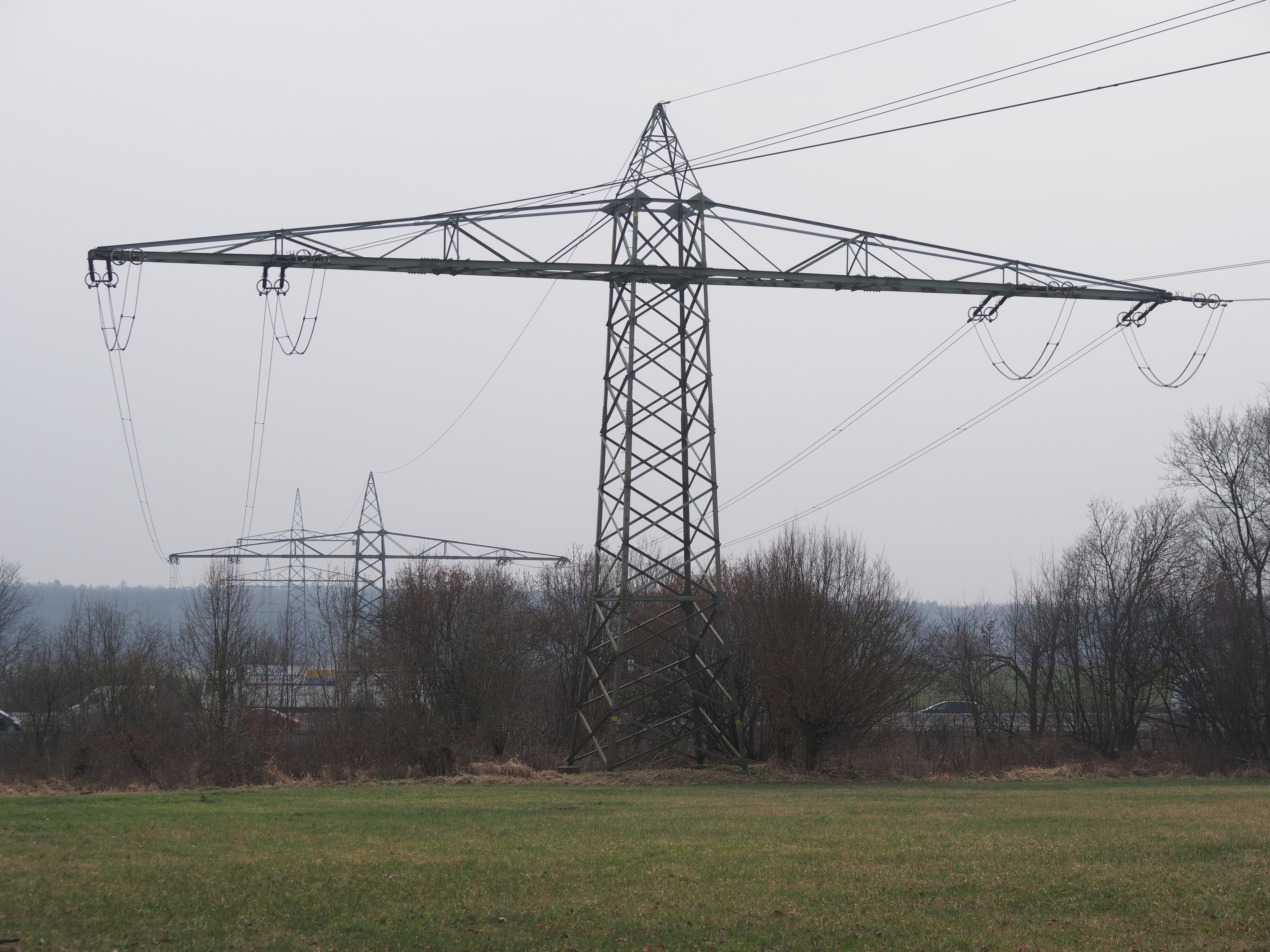 The Nord-Süd-Leitung crossing A6 motorway on very low and wide pylons